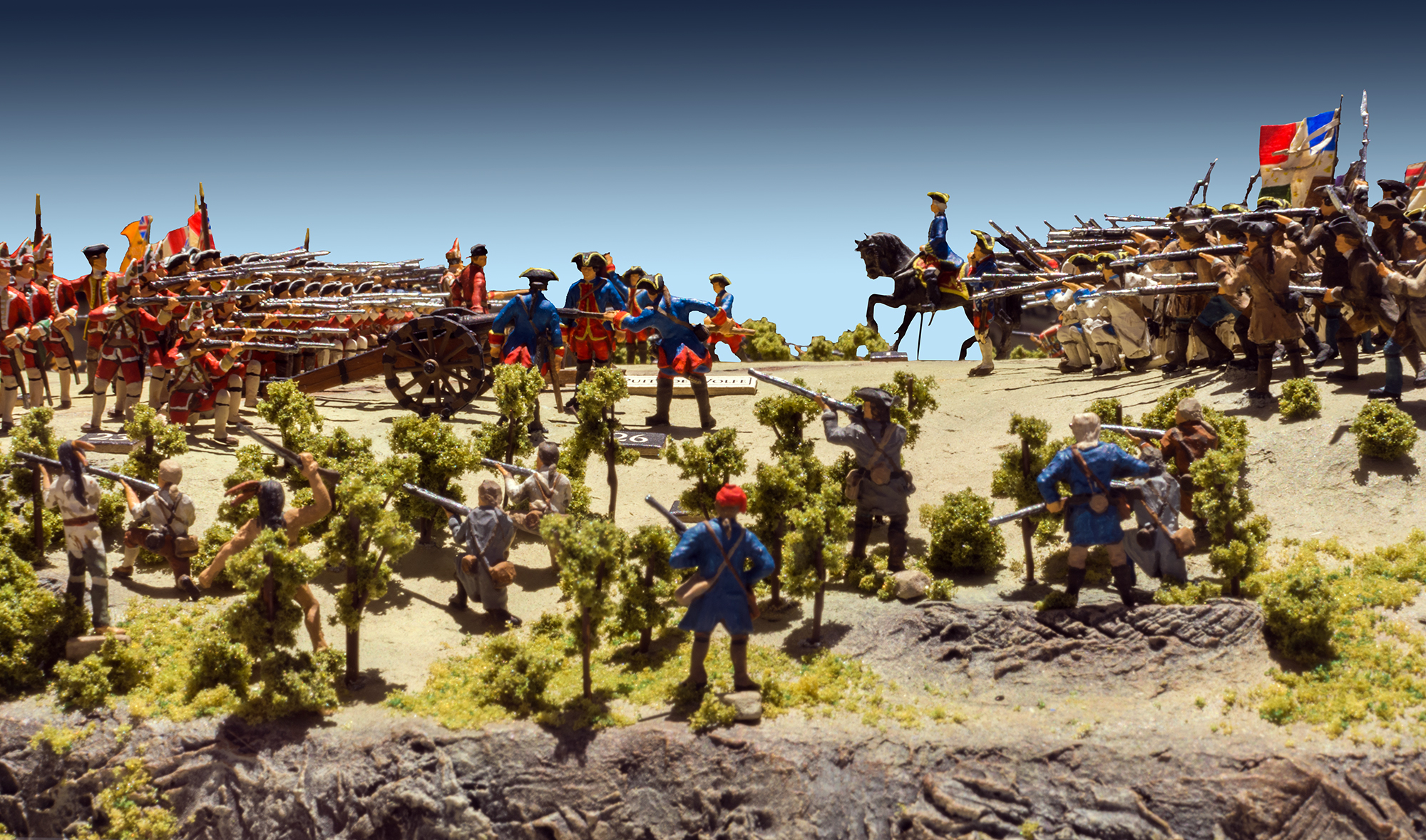 Maquette de la Bataille des Plaines d’Abraham dans Musées de la civilisation